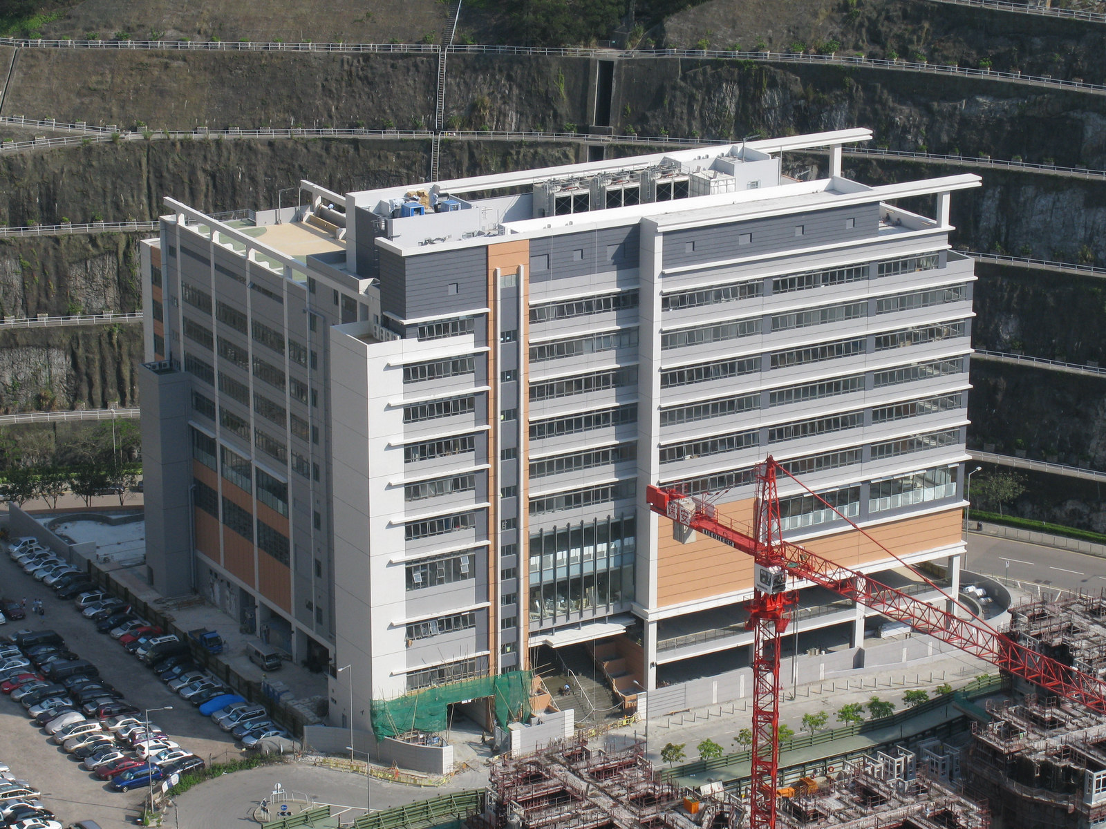 Caritas Bianchi College of Careers (Tiu Keng Leng Campus)